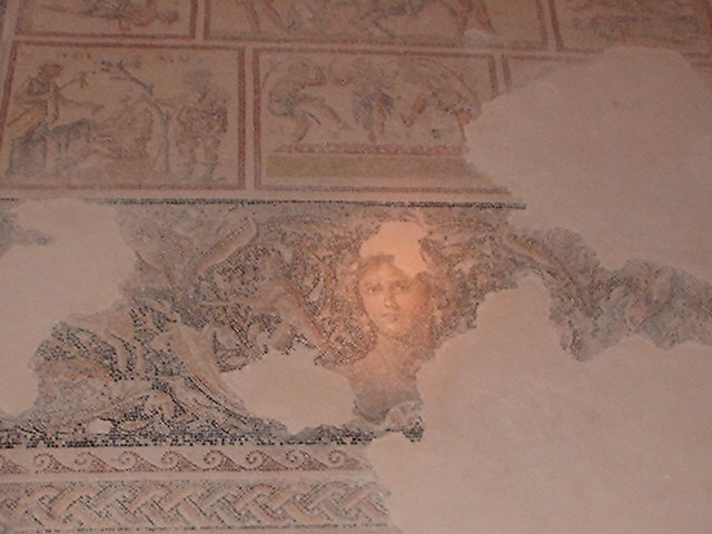 The face in the middle of the 3rd century mosaic from the Ancient Roman villa at Tzippori (Sepphoris), Israel. Many have dubbed her "The Mona Lisa of the Galilee".